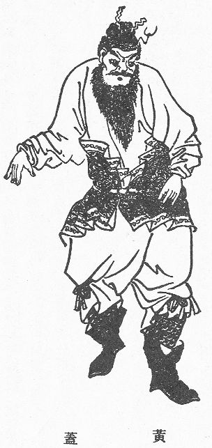 Portrait of the general Huang Gai from a Qing Dynasty edition of The Romance of the Three Kingdoms.